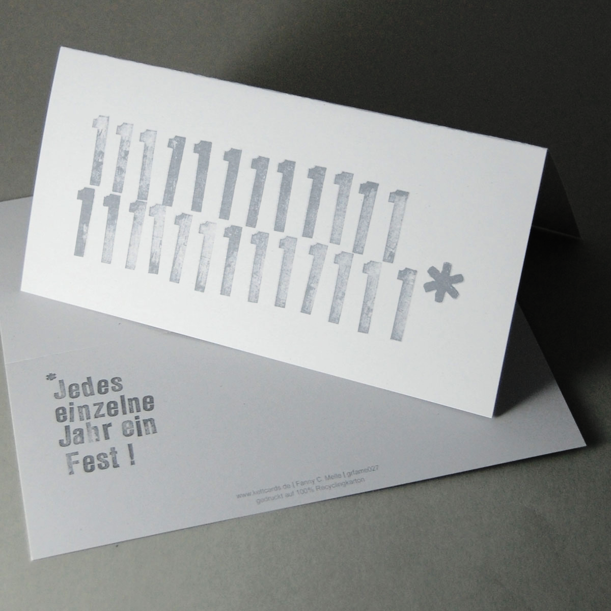 unary number representation for an anniversary card